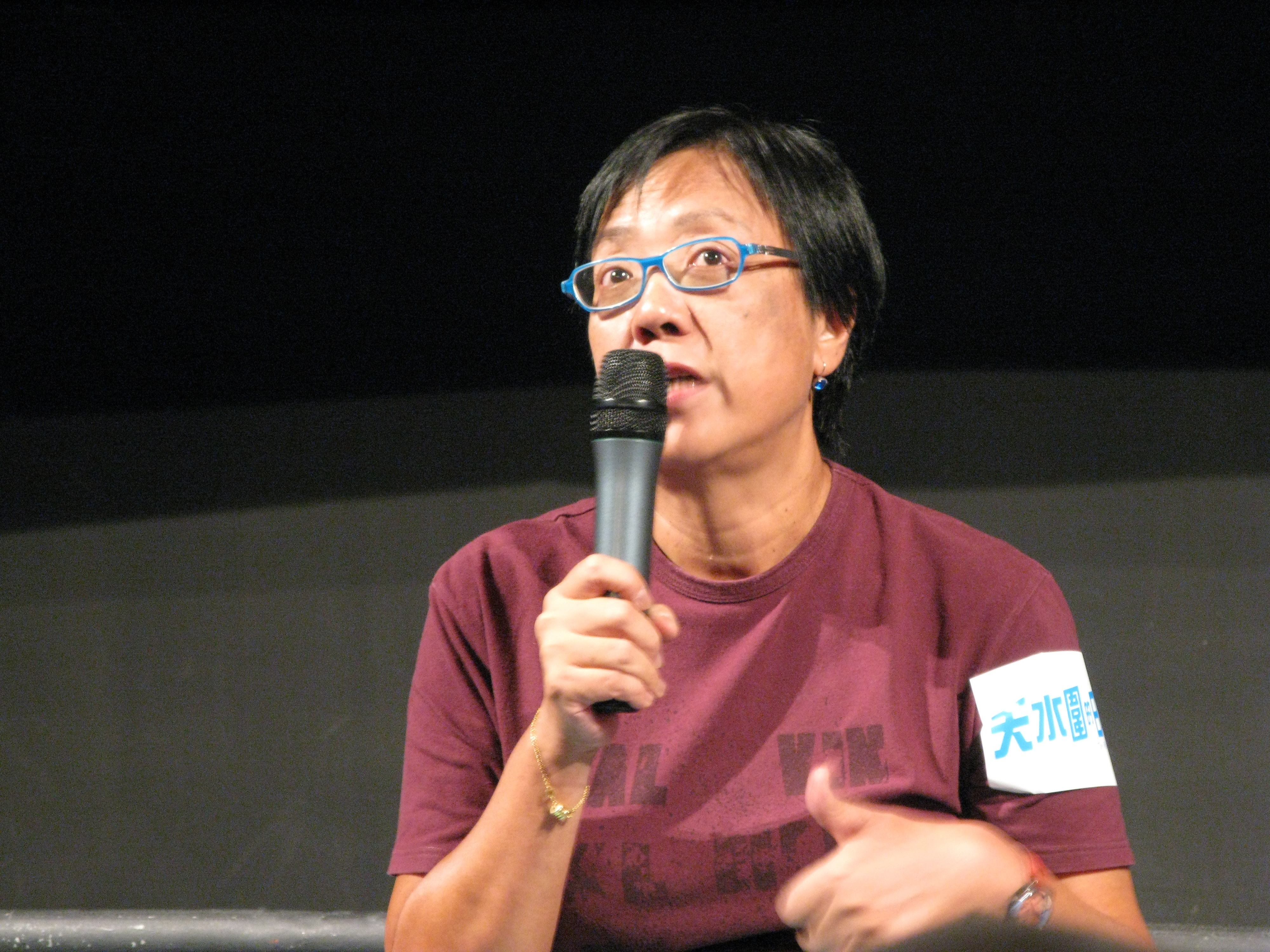 Hong Kong director Ann Hui answers questions following a screening of her latest film "The Way We Are" at the Broadway Cinematheque in Yau Ma Tei.